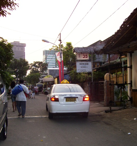 Jalan Jaksa famous cheap place to stay in Jakarta